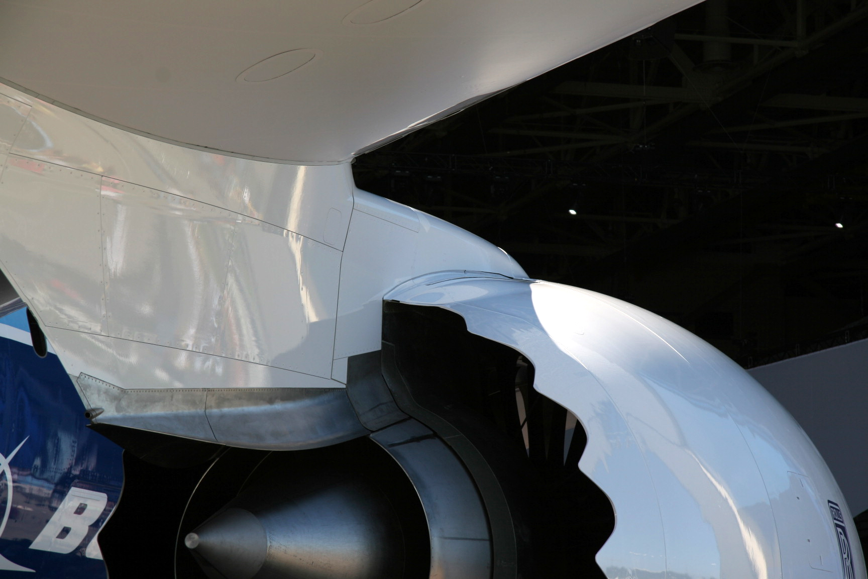 Boeing 787 RR engines, showing chevron edges